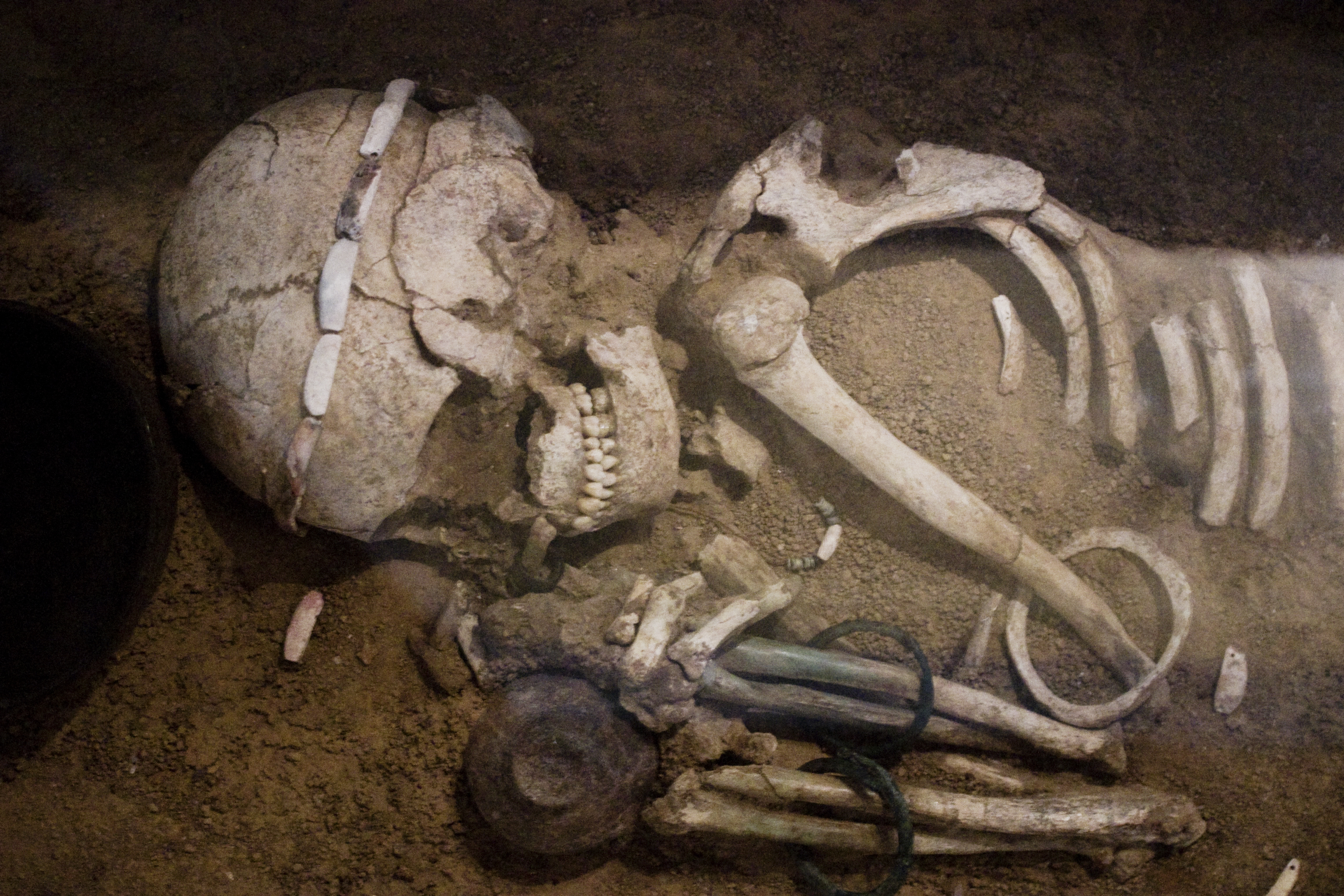 Skeleton and burial gifts and jewellery from Grave No 245, Durankulak necropolis, Dobrich region. Dated to the fifth millennium BC.